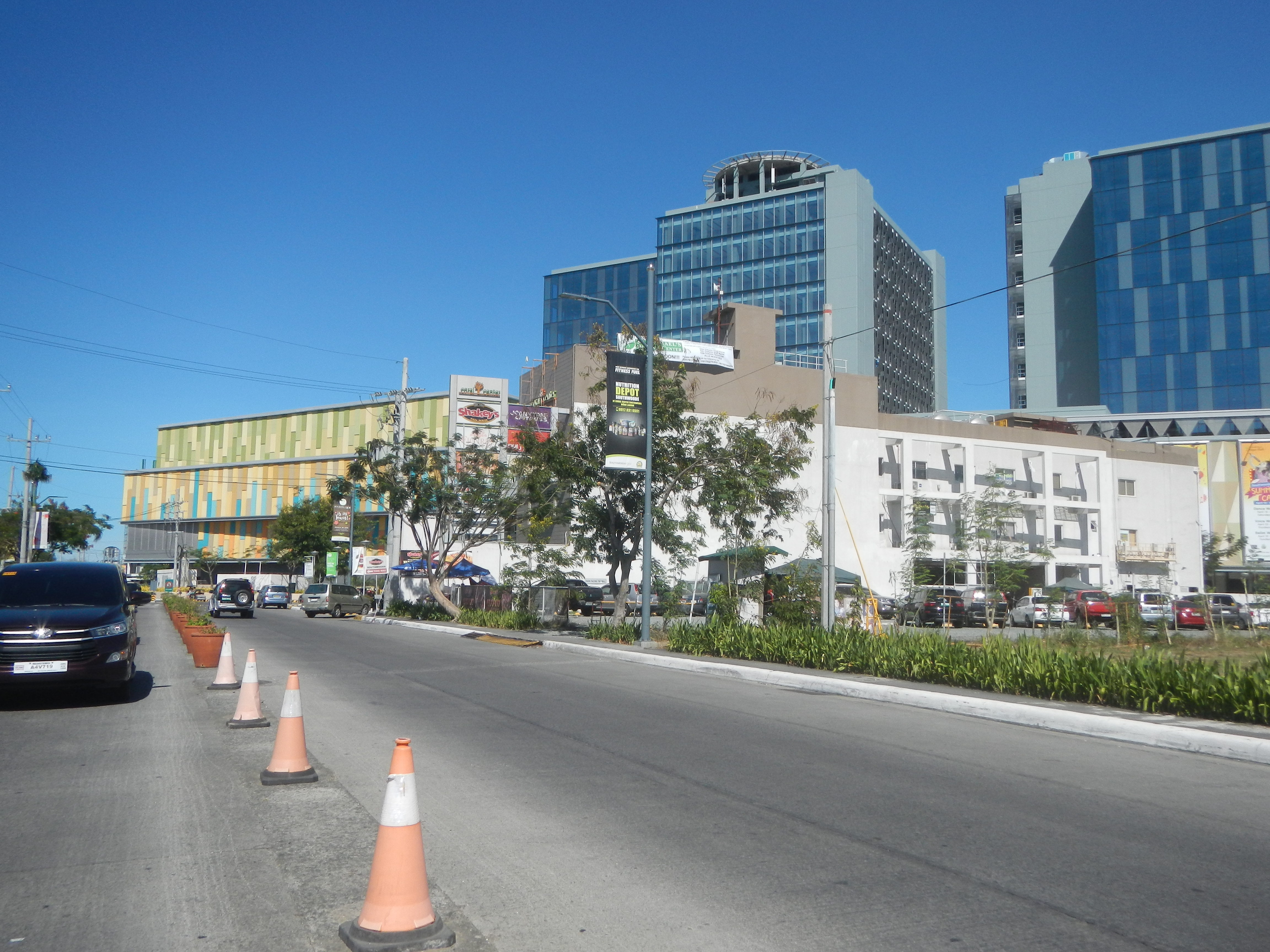 Welcome sign of (San Francisco-Halang) Biñan City - Southwoods partial cloverleaf interchange, South Luzon Expressway Southwoods City (San Francisco-Halang, Biñan City, Laguna) Unihealth-Southwoods Hospital and Medical Center (San Francisco-Halang, Biñan City, Laguna) Southwoods Mall Megaworld Corporation Megaworld Lifestyle Malls Barangay San Francisco (Halang) 14°19'56"N 121°3'18"E Soro-Soro 14°19'35"N 121°3'39"E Biñan City of Biñan, Laguna; Legislative district of Biñan (Note: Judge Florentino Floro, the owner, to repeat, Donor Florentino Floro of all these photos hereby donate gratuitously, freely and unconditionally all these photos to and for Wikimedia Commons, exclusively, for public use of the public domain, and again without any condition whatsoever). (Note: Judge Florentino Floro, the owner, to repeat, Donor Florentino Floro of all these photos hereby donate gratuitously, freely and unconditionally all these photos to and for Wikimedia Commons, exclusively, for public use of the public domain, and again without any condition whatsoever).